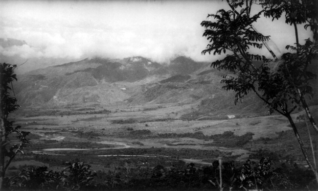 Grasslands in Central Sulawesi (Bada), circa 1912